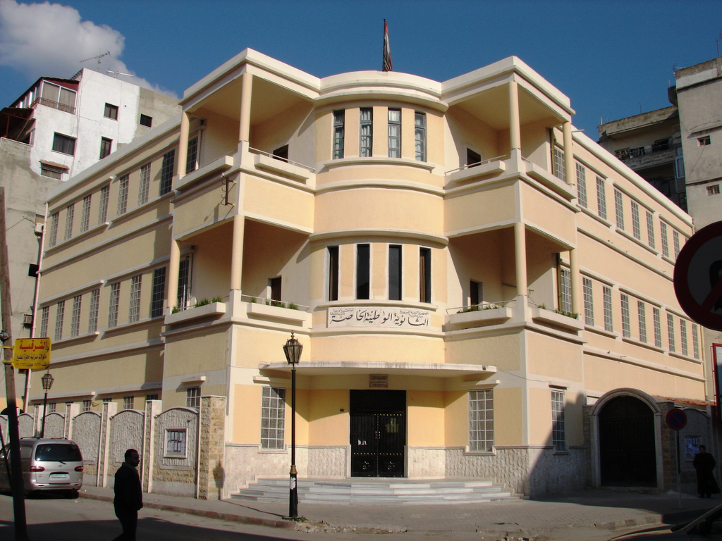 Al-Keleyye High School - Latakia, Syria